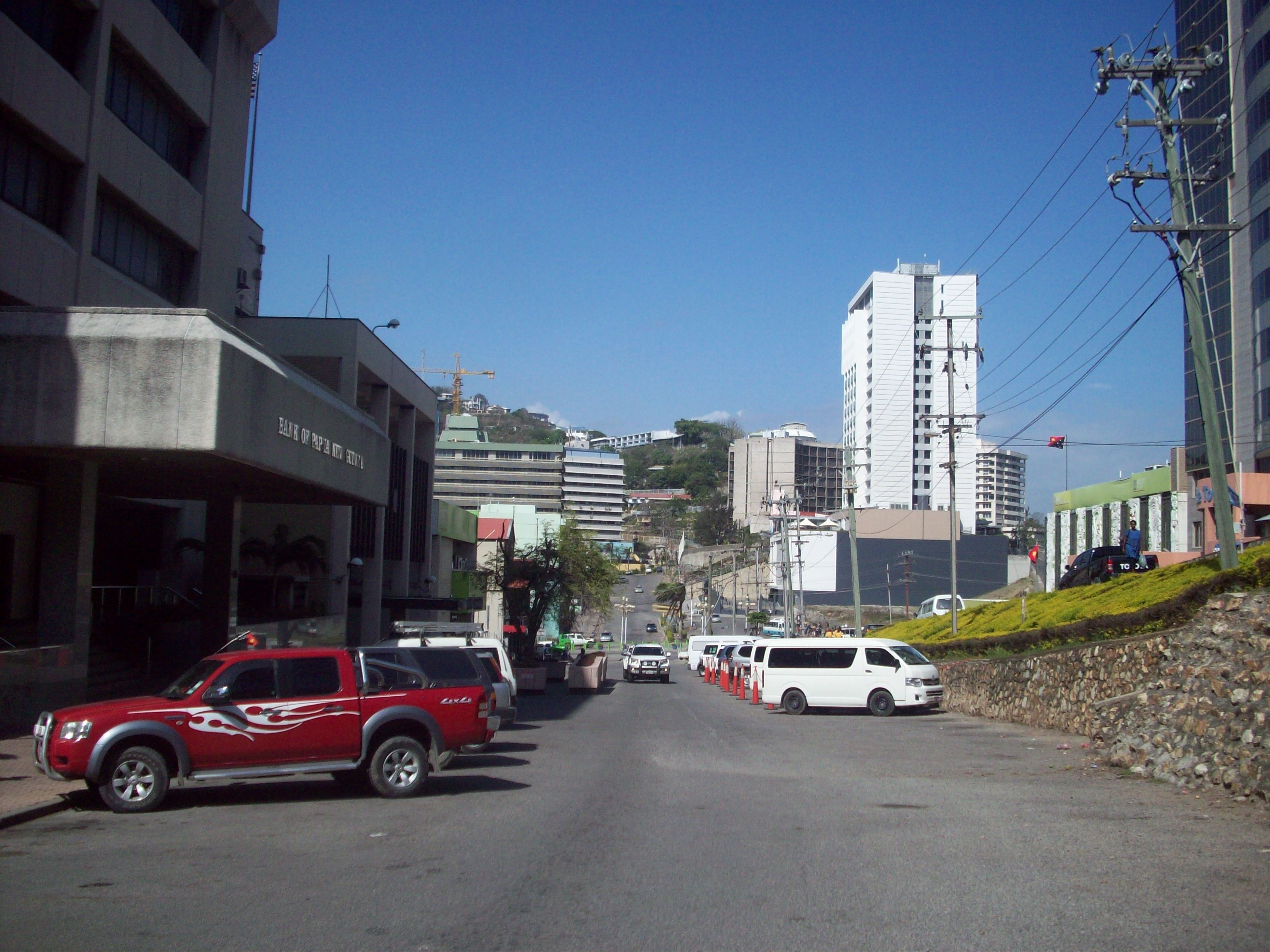 Douglas Street Port Moresby 2013